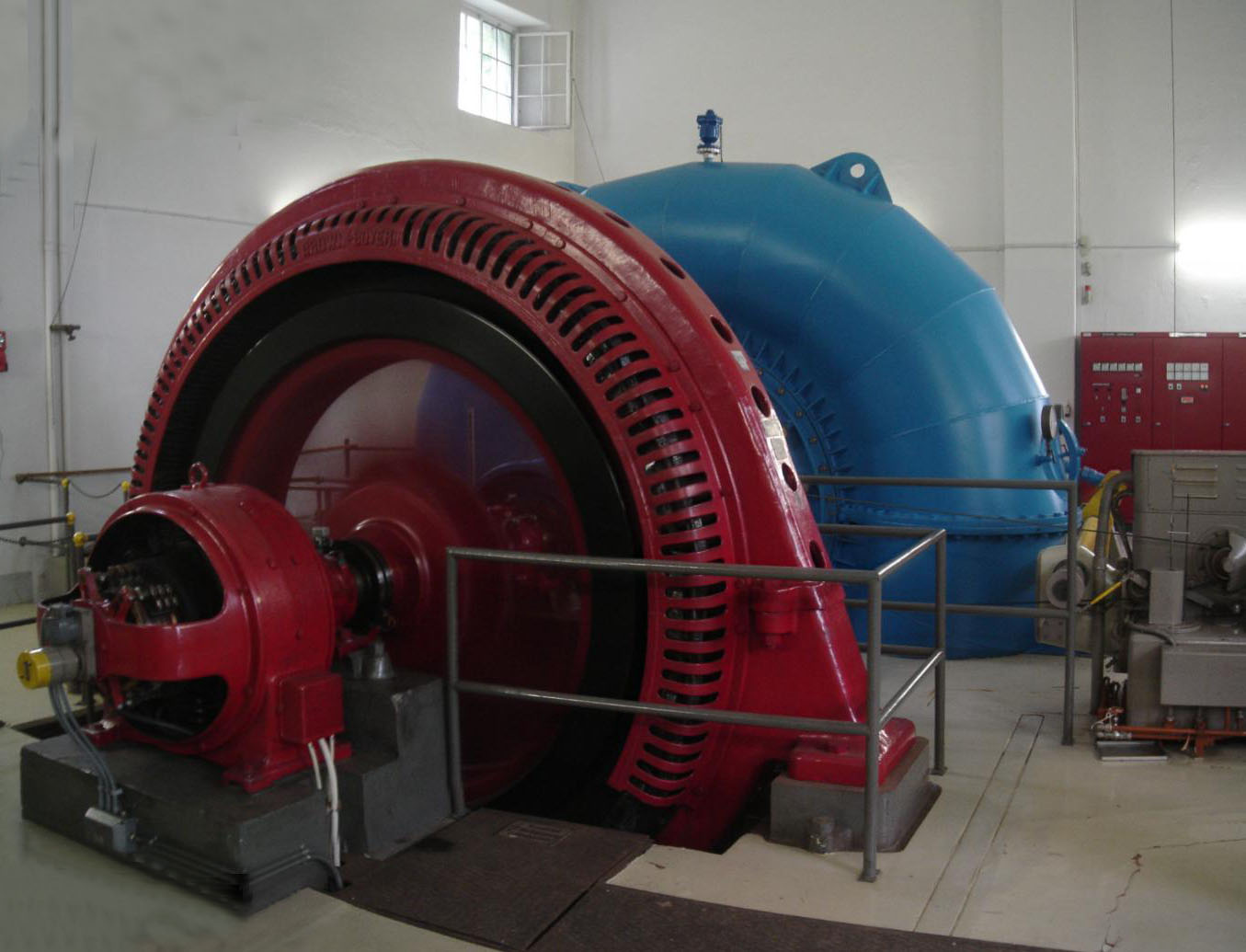 Powerplant Thorenberg near Lucerne, Switzerland. First alternating current power plant in Switzerland feeding used for ilumination of the town Lucerne. Turbine and Generator.